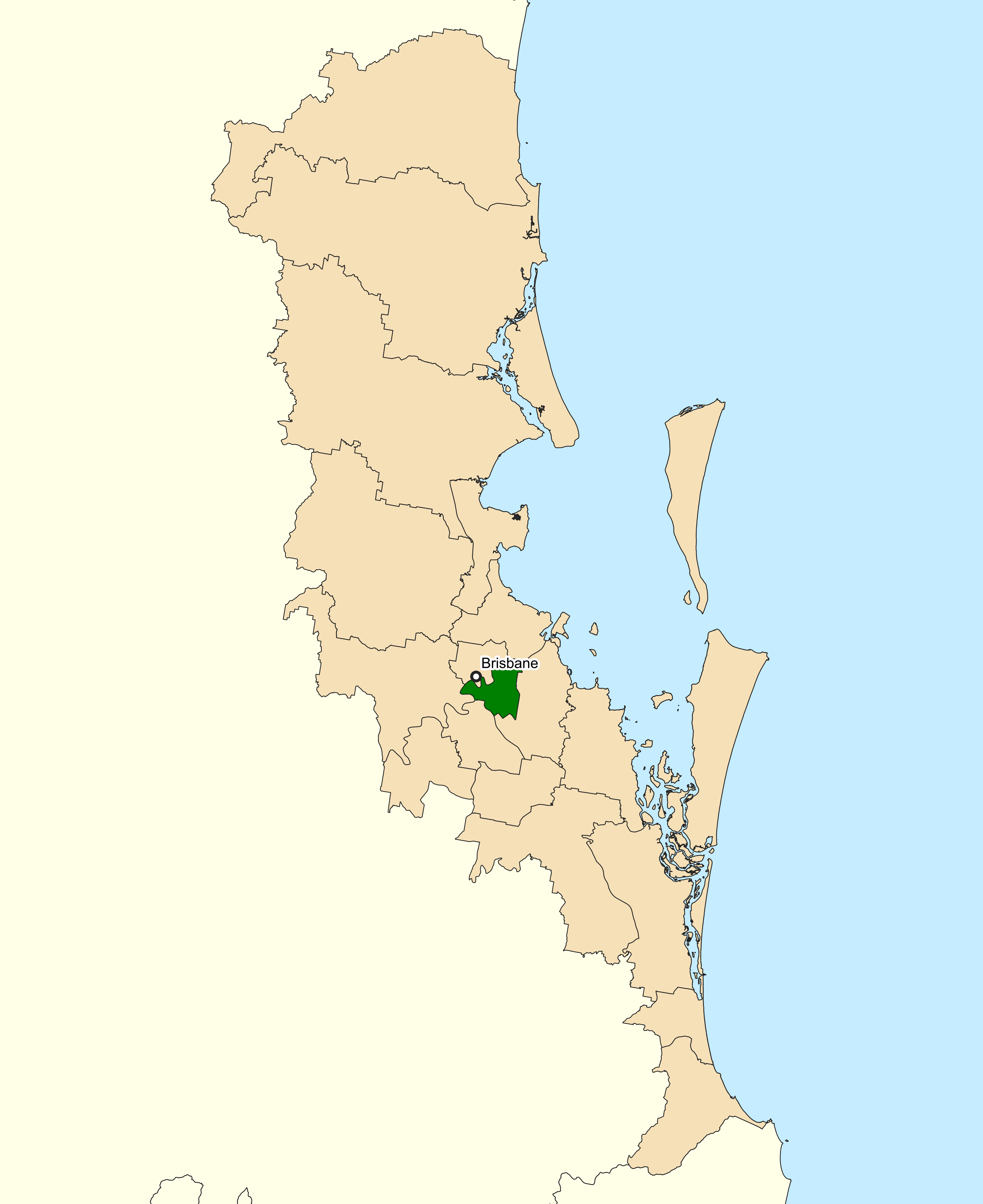 Location of the Australian federal electoral division of Griffith (dark green) in Greater Brisbane, Queensland as of the 2019 Australian federal election. Incorporates or developed using Administrative Boundaries ©PSMA Australia Limited licensed by the Commonwealth of Australia under Creative Commons Attribution 4.0 International licence (CC BY 4.0).